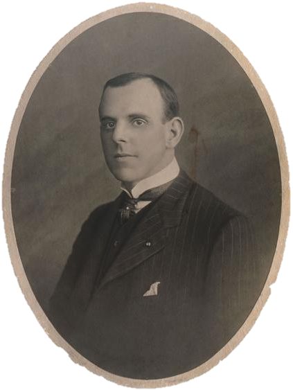 Francisco Tavares de Almeida Proença, Jr. (1853-1932), a Portuguese politician